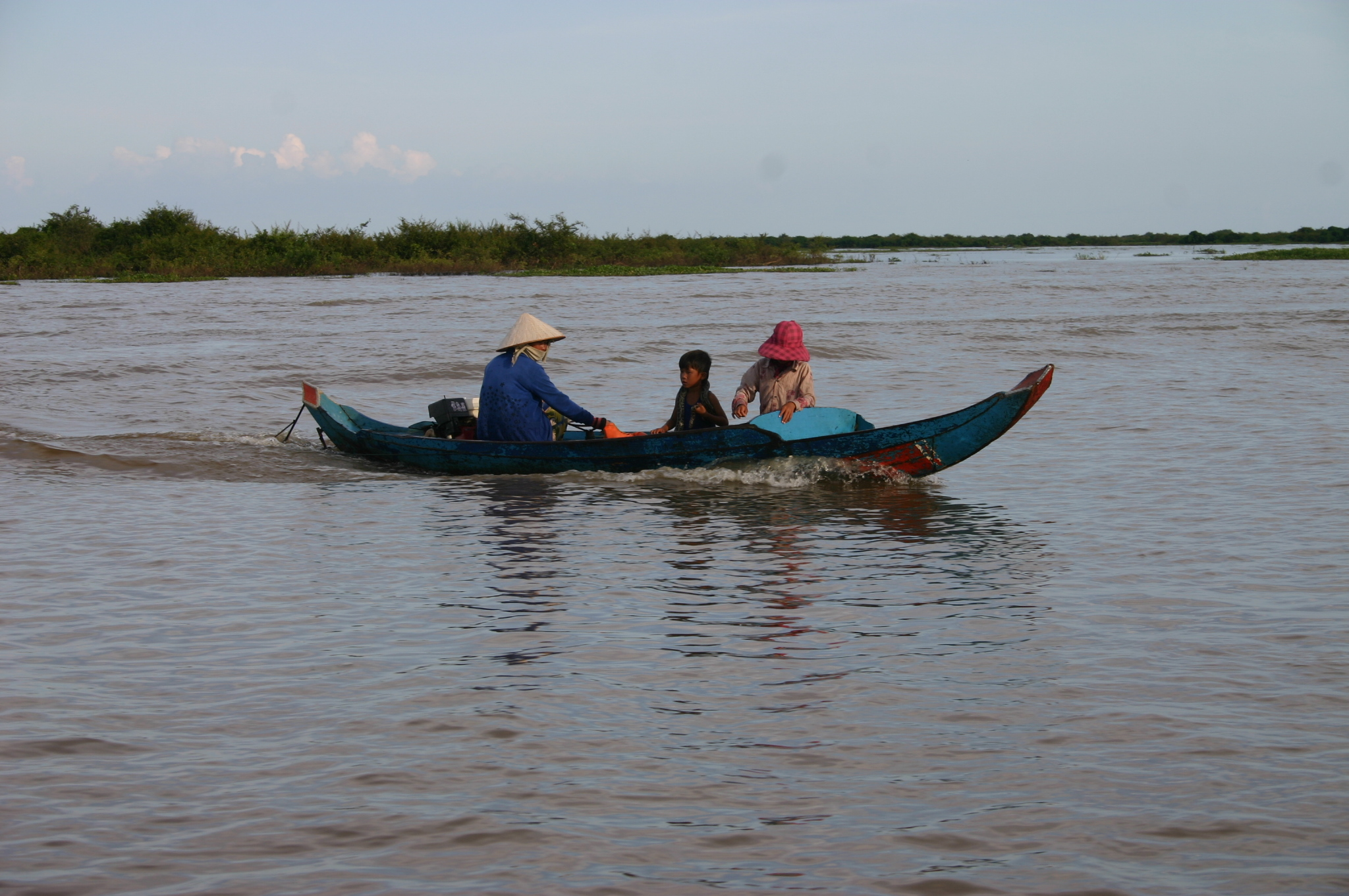 Boat on Tone Sap